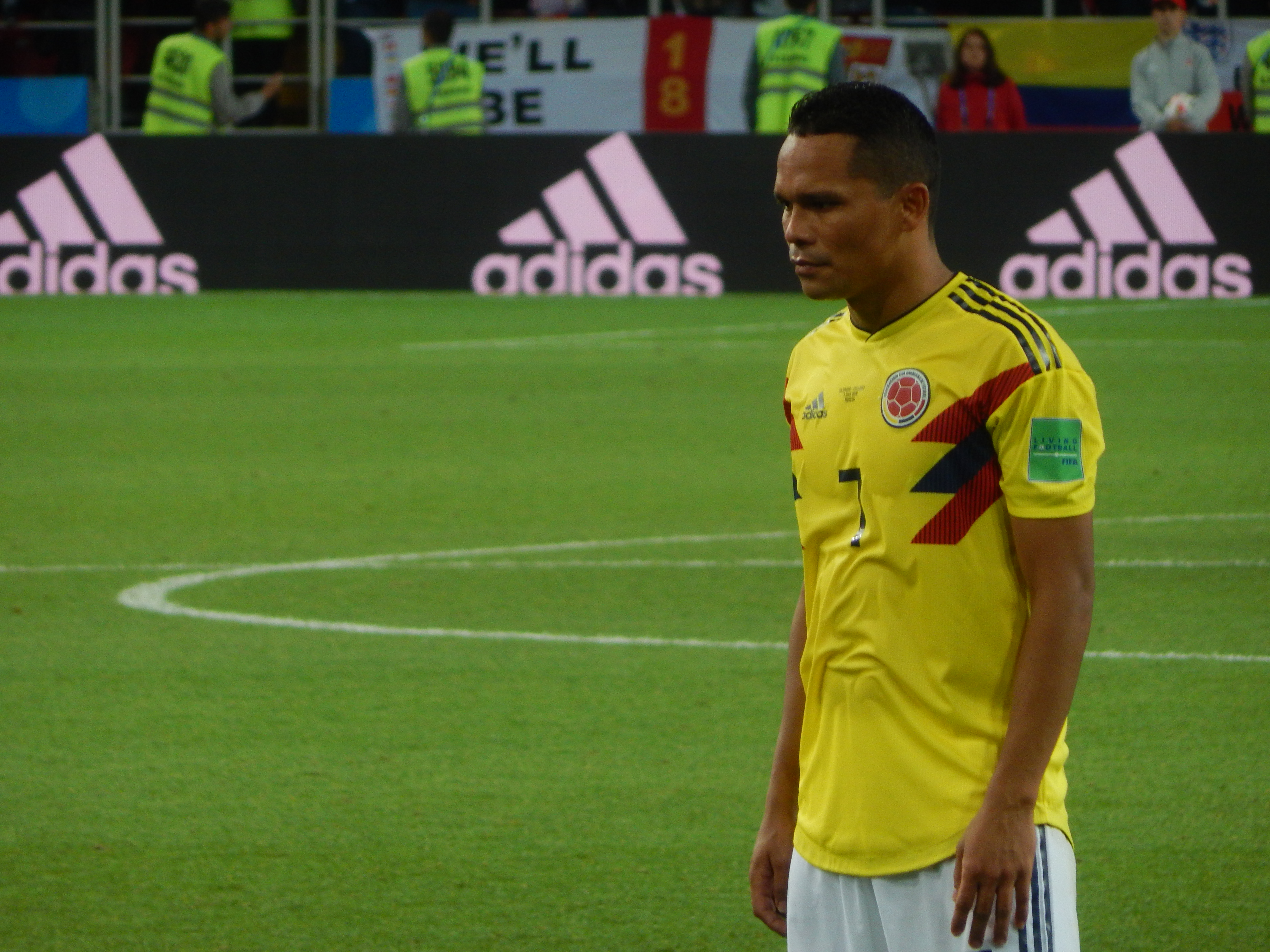 FIFA World Cup 2018, Round of 16, Colombia vs. England. Carlos Bacca before his kick during the shoot-out